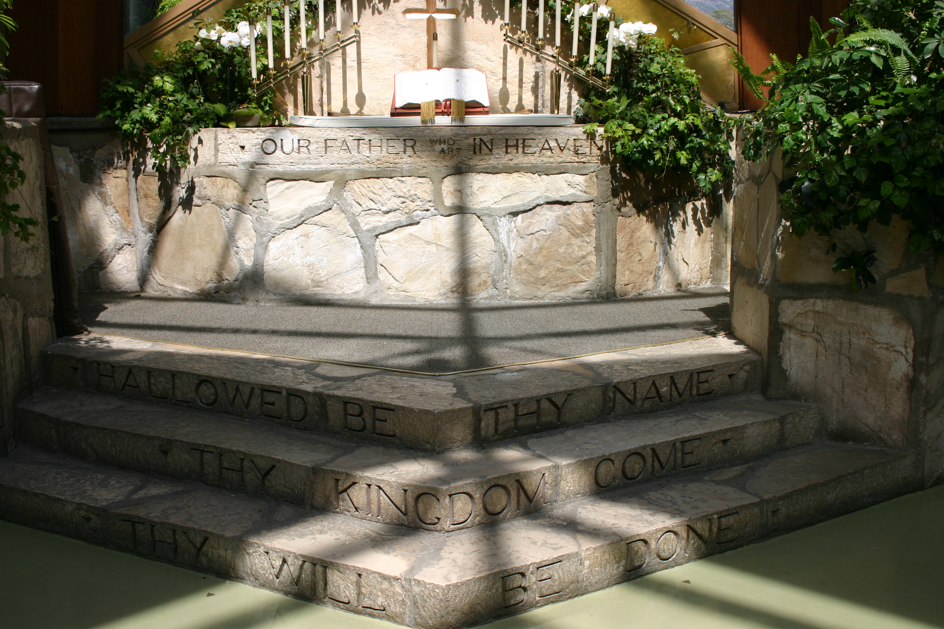 Wayfarers Chapel Rancho Palos Verdes, California